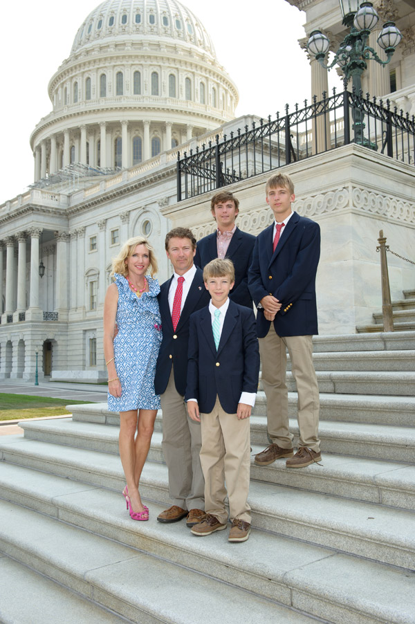 Family of Rand Paul